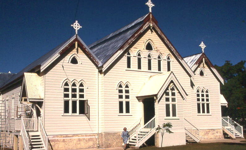 St Marys Church, Townsville, Australia